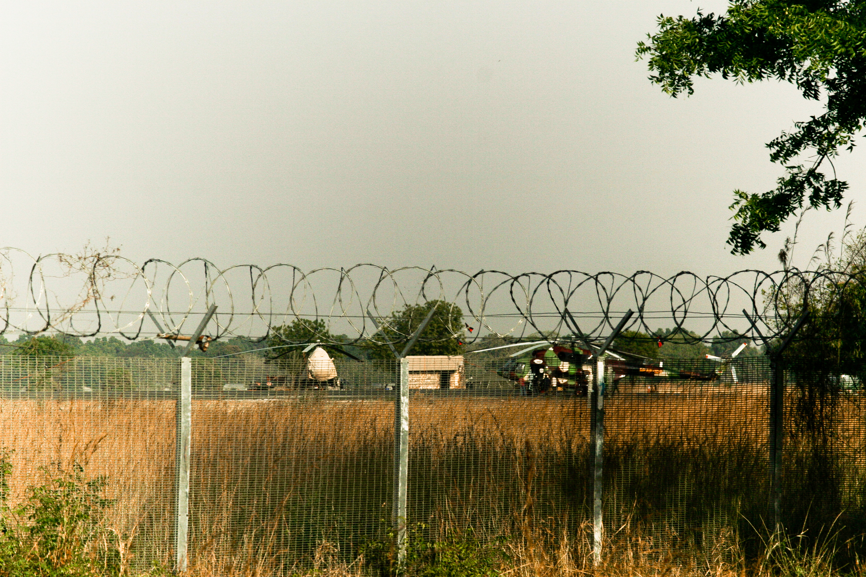 Two Mi17 helicopters at Juba Airport in Southern Sudan, after being unloaded from an Antonov cargo plane. They are part of the Sudan People's Liberation Army's first air force, known as the SPAF.